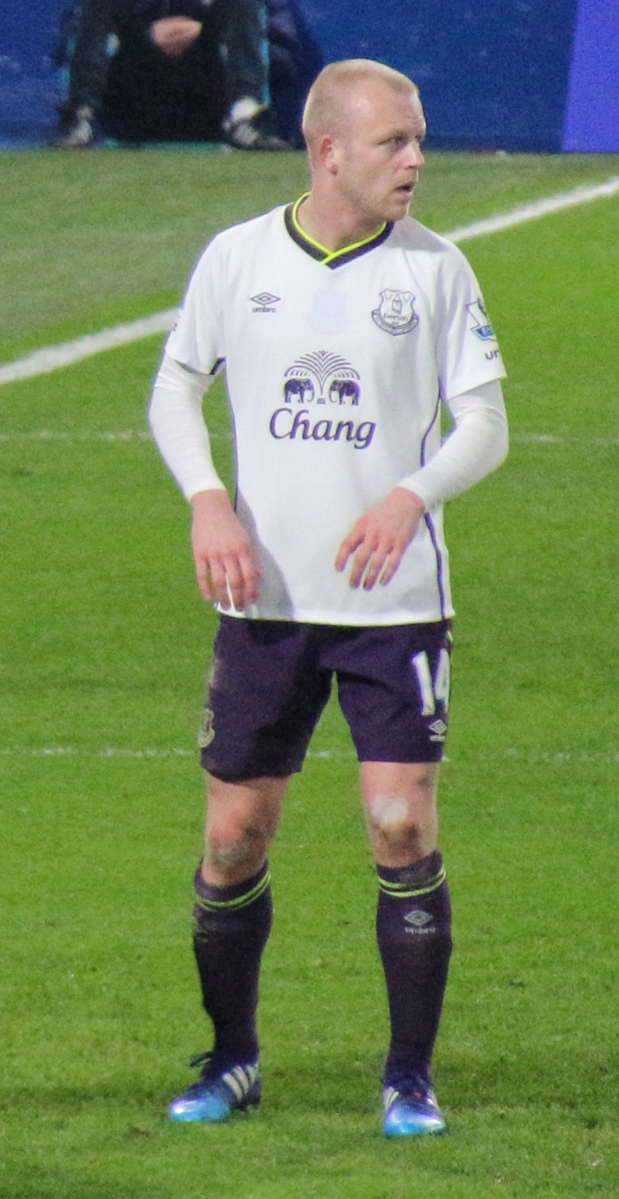 Chelsea 1 Everton 0